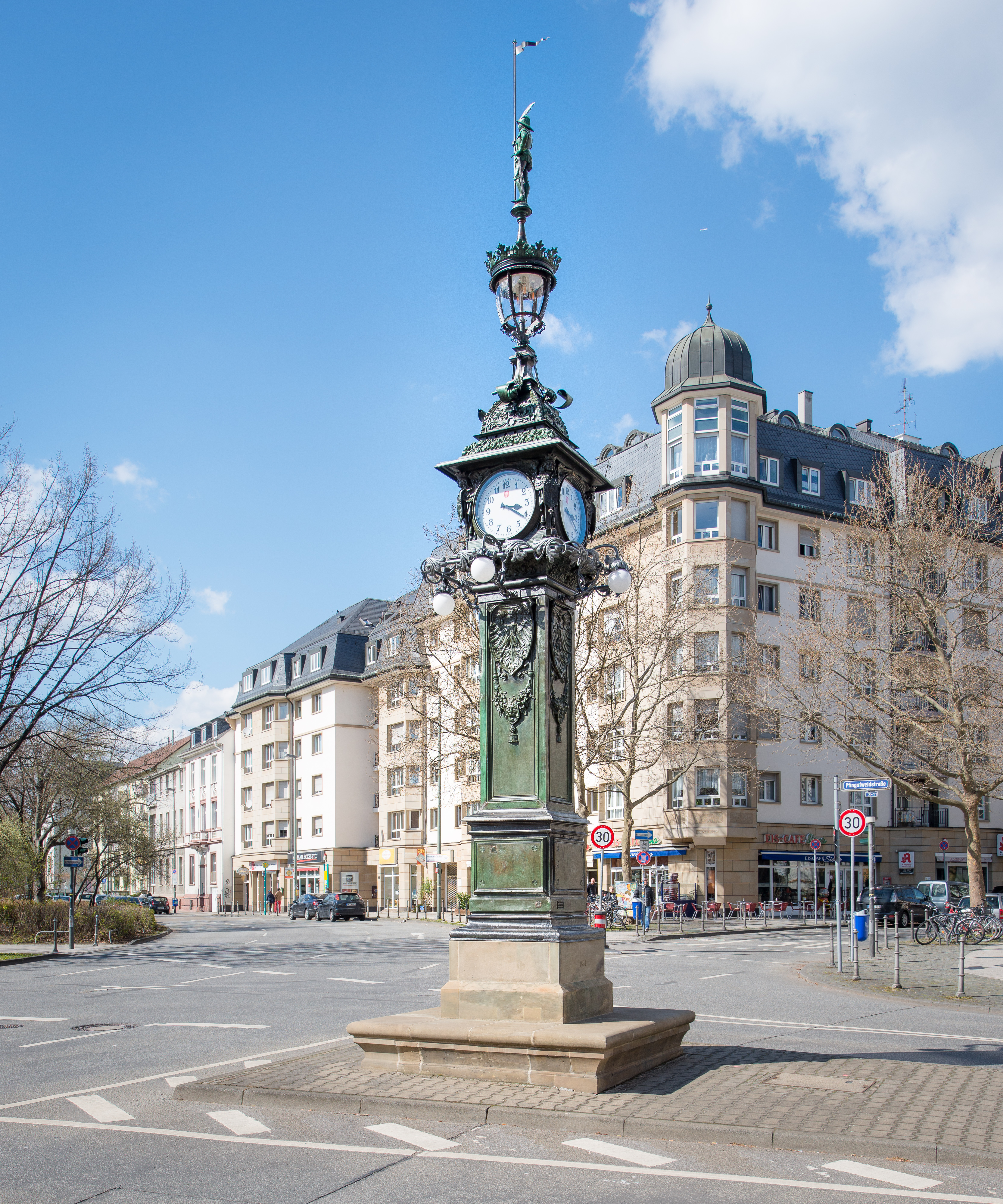 Frankfurt am Main, Friedberger Anlage - Zeil - Pfingstweidstraße - Sandweg, Little Clock Tower, seen from South